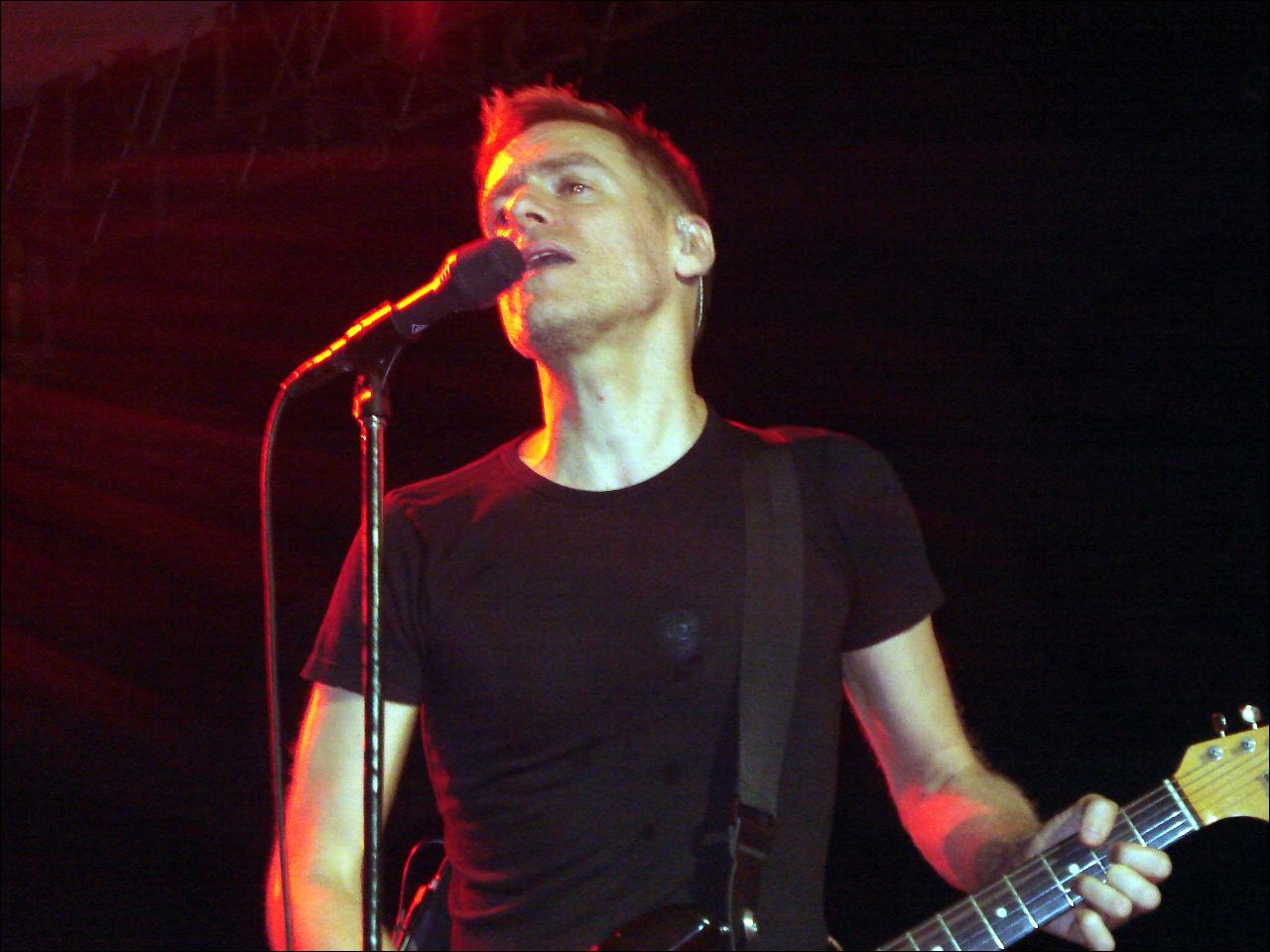 Bryan Adams live in Guadalajara, Mexico, on October 27, 2006